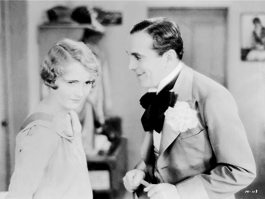 Photo from the 1930 film Mammy. Pictured are Lois Moran and Al Jolson.